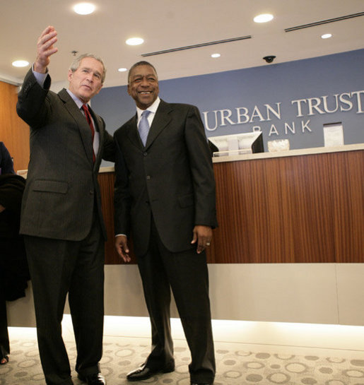 President George W. Bush is welcomed by Bob Johnson, founder and chairman of the RLJ Companies, to the Urban Trust Bank for a discussion on the economy with small business owners and community bankers, Monday, Oct. 23, 2006 in Washington, D.C. White House photo by Eric Draper